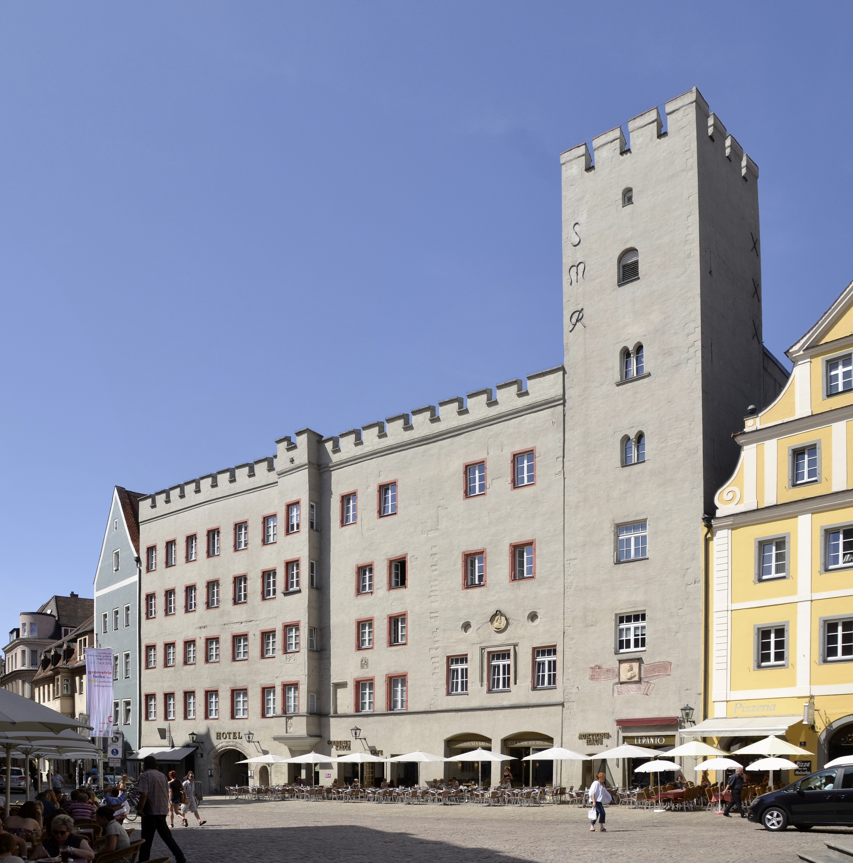 The Goldenes Kreuz at the Haidplatz in Regensburg, Bavaria.